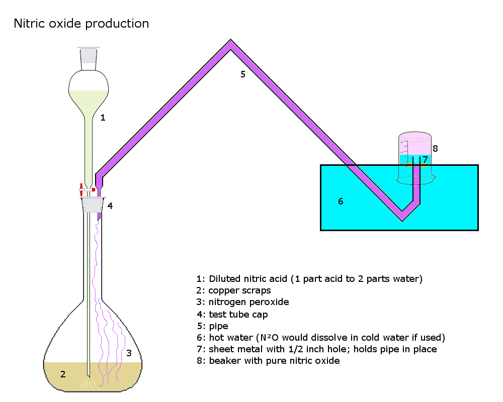 A schematic showing the (laboratory) production of nitrous oxide (not NITRIC OXIDE). The setup was made based on an image of the 1949 Popular Mechanics article by Kenneth M. Swezey (titled: The gas that makes you laugh). Images from were used to make this image.